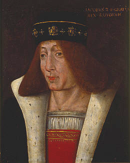 Posthumous portrait of James II of Scotland; oil on panel